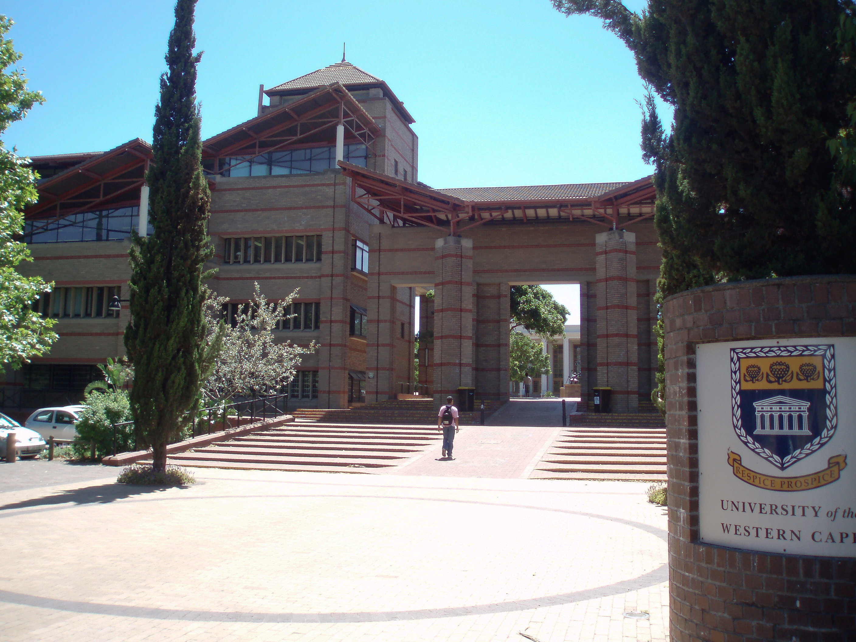 University of the Western Cape - Central Campus entry, 28th November 2008